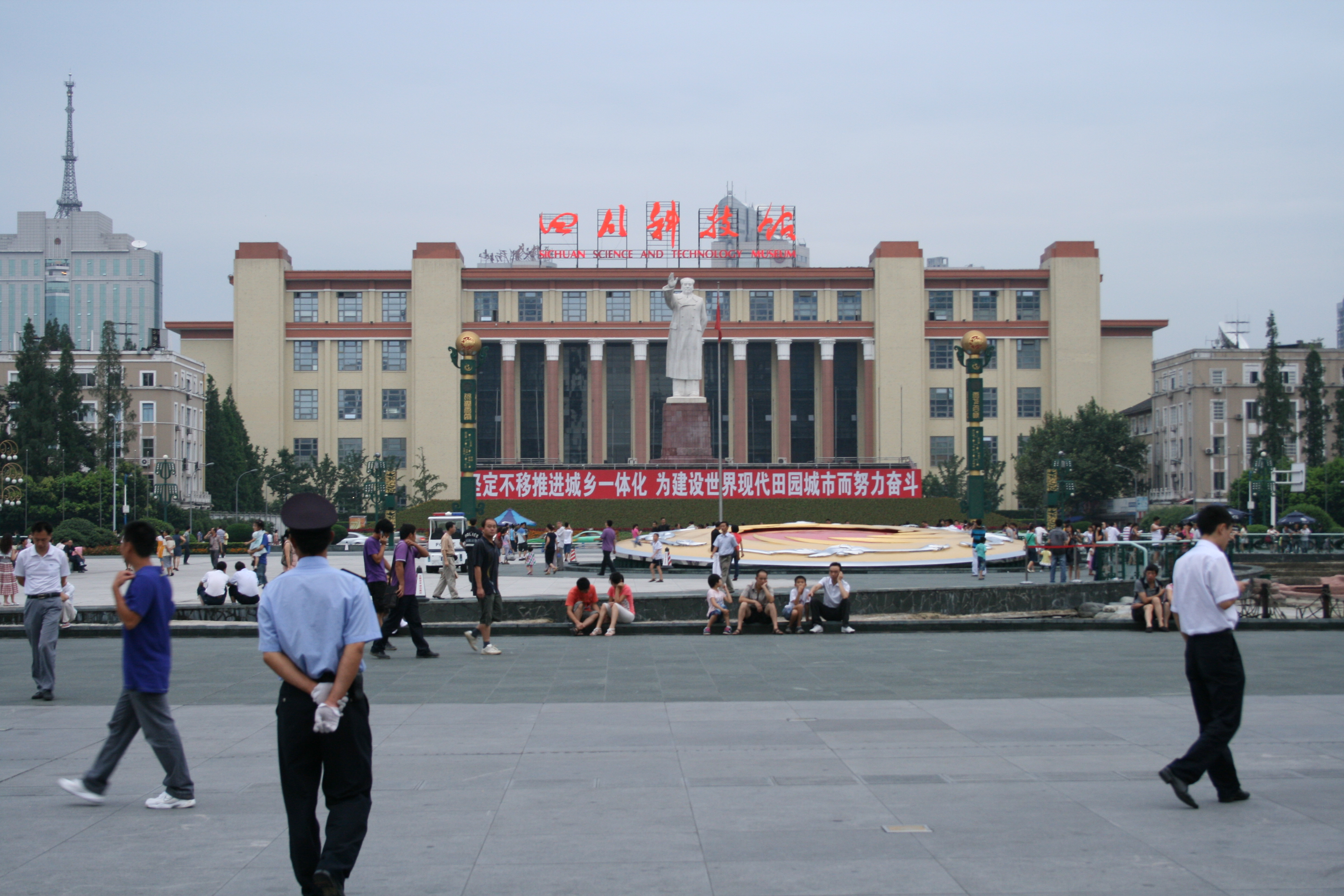 Tianfu Sqaure, Chengdu